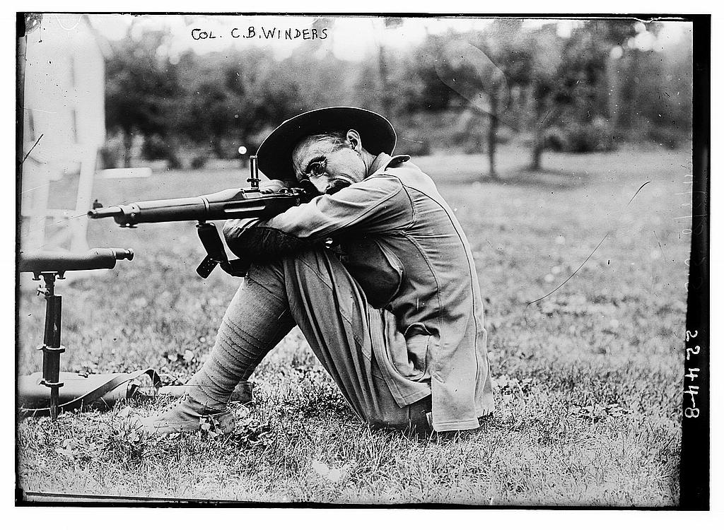 Bain News Service,, publisher. Col. C. B. Winder in 1911 [between ca. 1910 and ca. 1915] 1 negative : glass ; 5 x 7 in. or smaller. Notes: Title from data provided by the Bain News Service on the negative. Photo shows New York area marksman C.B. Winder with a gun. (Source: Flickr Commons project, 2008) Forms part of: George Grantham Bain Collection (Library of Congress). Format: Glass negatives. Repository: Library of Congress, Prints and Photographs Division, Washington, D.C. 20540 USA, General information about the Bain Collection is available at Persistent URL: Call Number: LC-B2- 2244-8